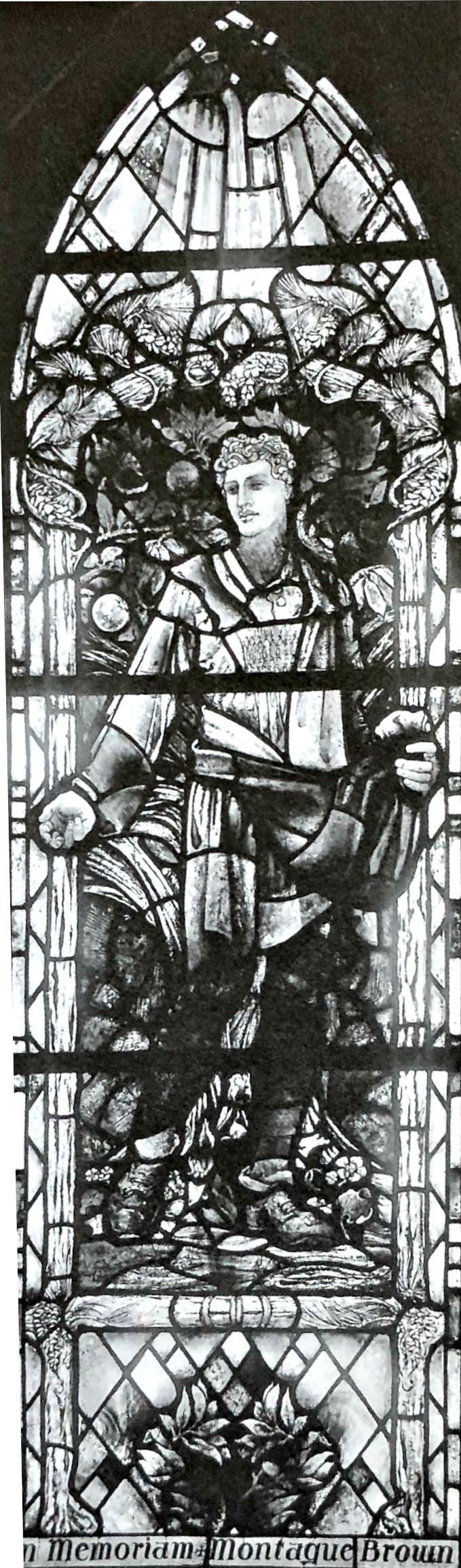 Stained Glass Window, St. Andrew's Anglican Church, La Tuque Quebec by artist Mary Hamilton Frye